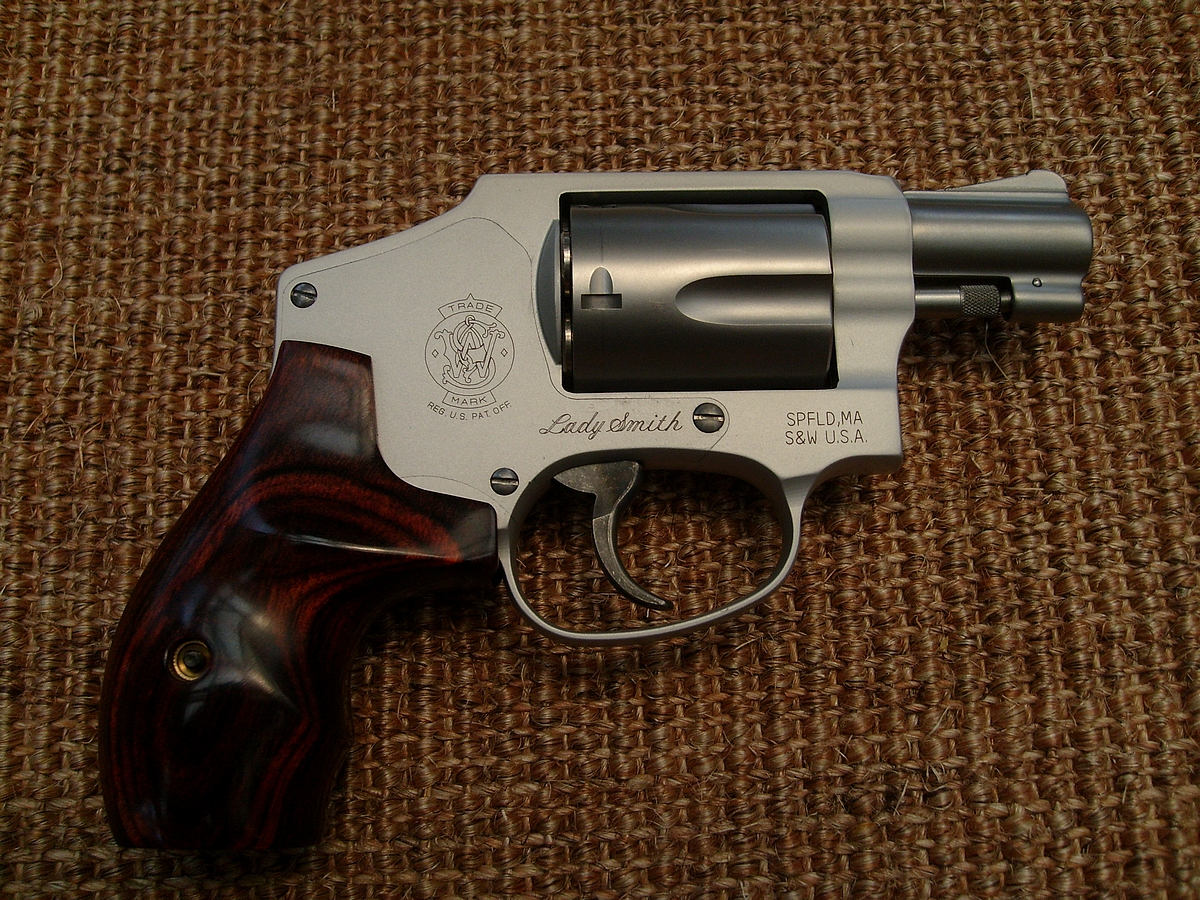 My wife's gun. Double Action Revolver. Made in the U.S.A.